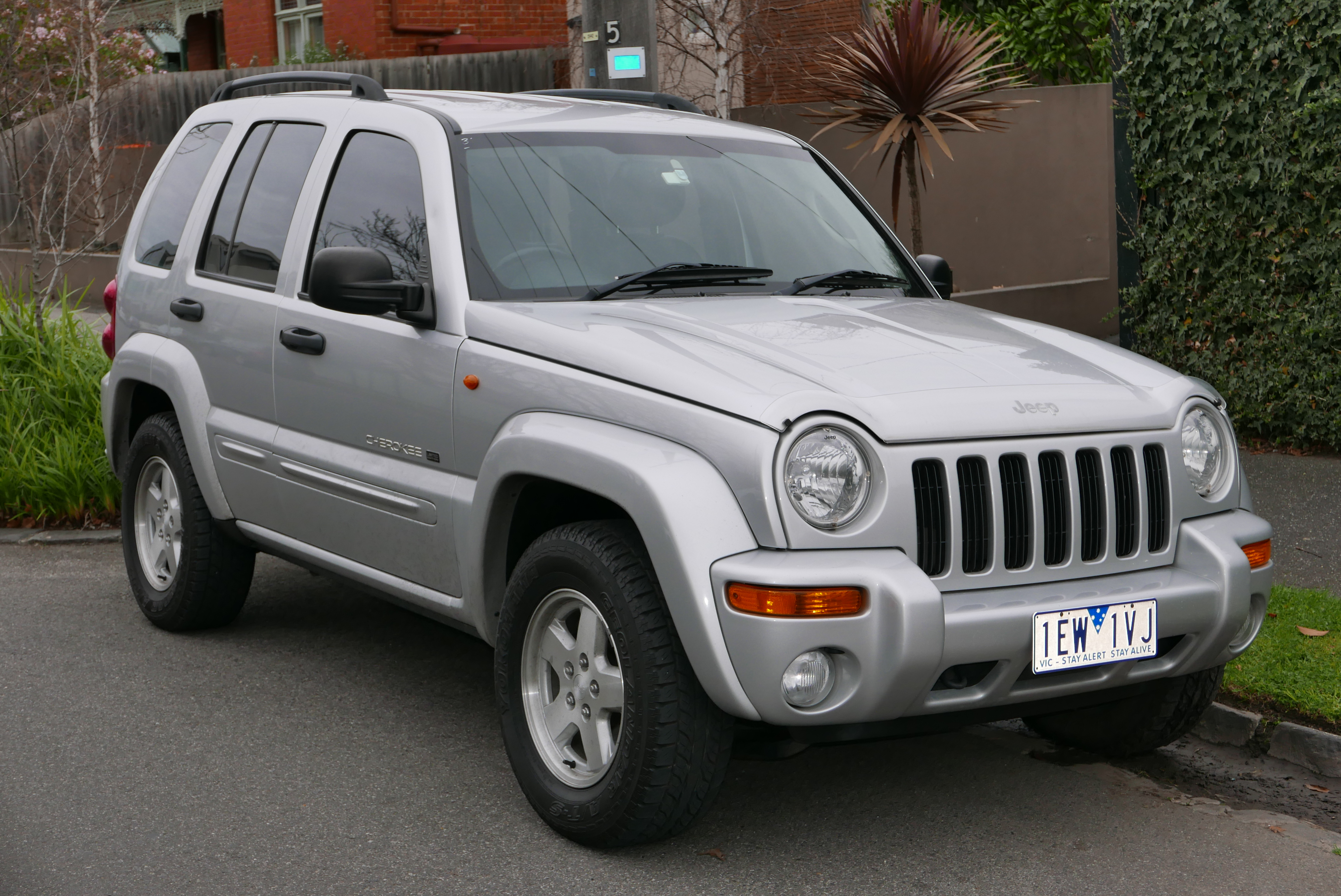 2003 Jeep Cherokee (KJ MY03) Limited Edition wagon. Photographed in Kew, Victoria, Australia. Vehicle registration enquiry resultsJurisdictionVictoriaRegistration1EW1VJChassis code1J8GM58K83W637864Engine code3W637864Compliance date2003-07Year of manufacture2003